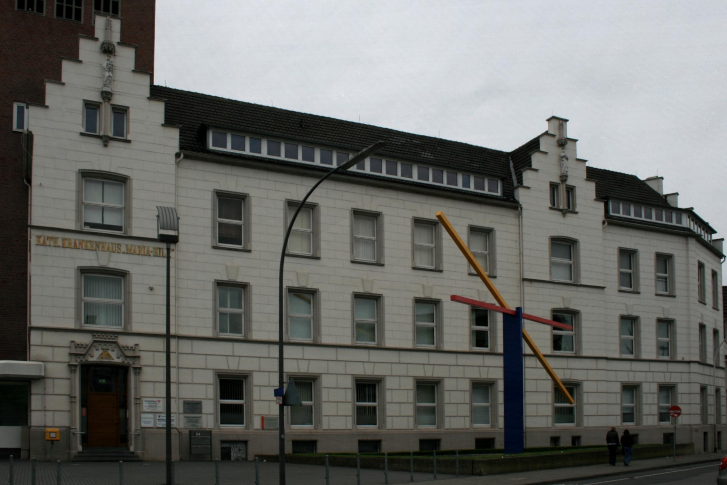 Cultural heritage monument No. S 012 in Mönchengladbach